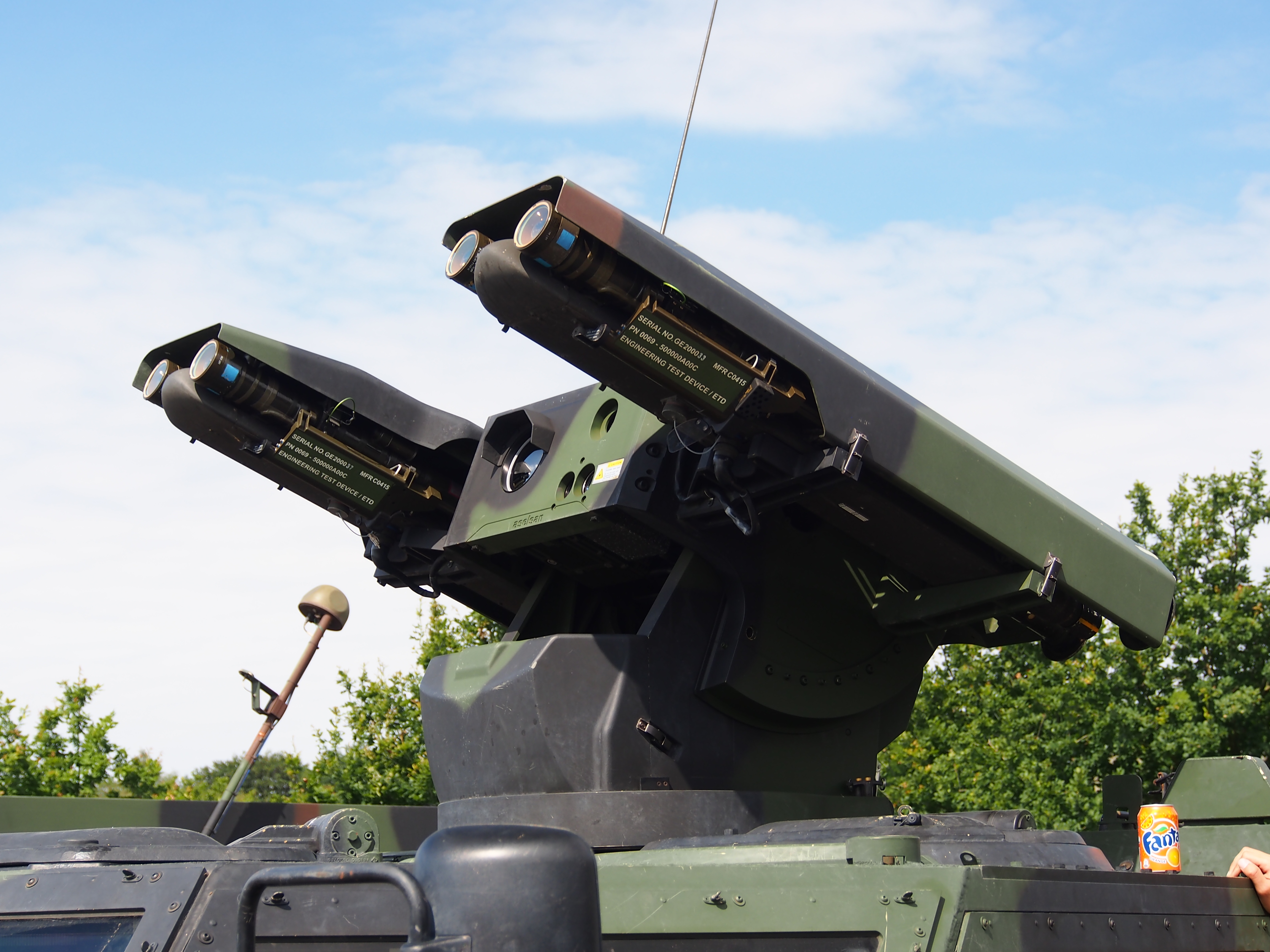 Photographed at Gilze-Rijen Air Base ( IATA=GLZ, ICAO=EHGR), The Netherlands.